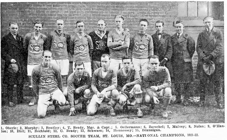 The St. Louis Scullin Steel FC, US Cup winner.